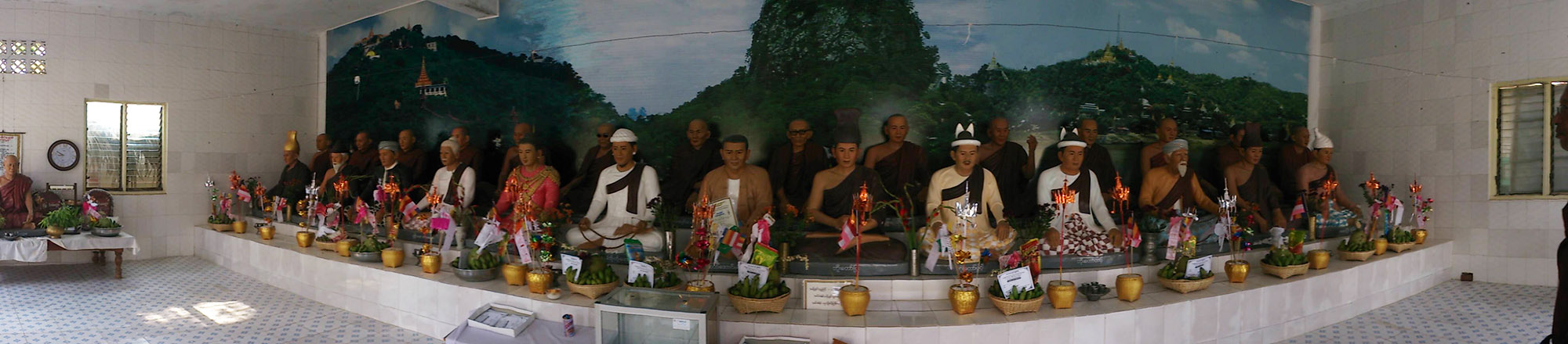 Famous Yogis and Wizards from Myanmar